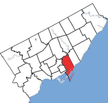 Toronto-Danforth in relation to the other Toronto ridings (2015 boundaries)